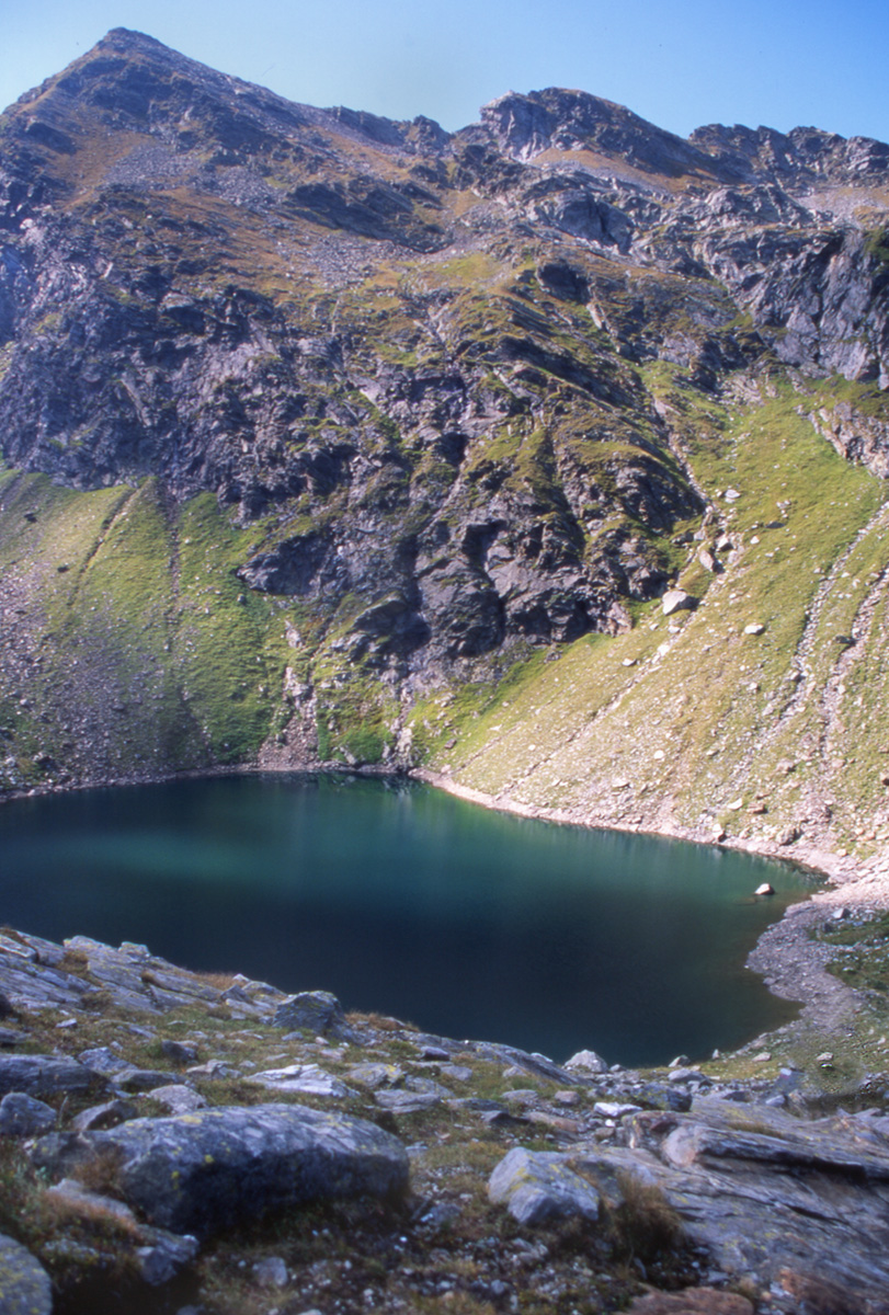 Dorf Tirol (South Tyrol), Spronser Seen: Grünsee (Green Lake, Spronser Lakes) - Naturpark Texelgruppe (Texel Natural Park)